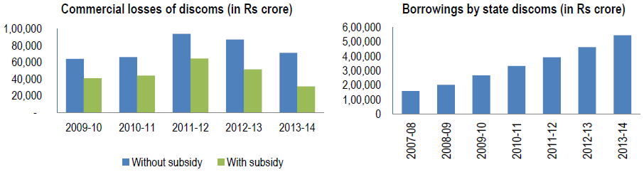 Borrowings by state owned discoms (Distribution Companies)/commerical losses; India